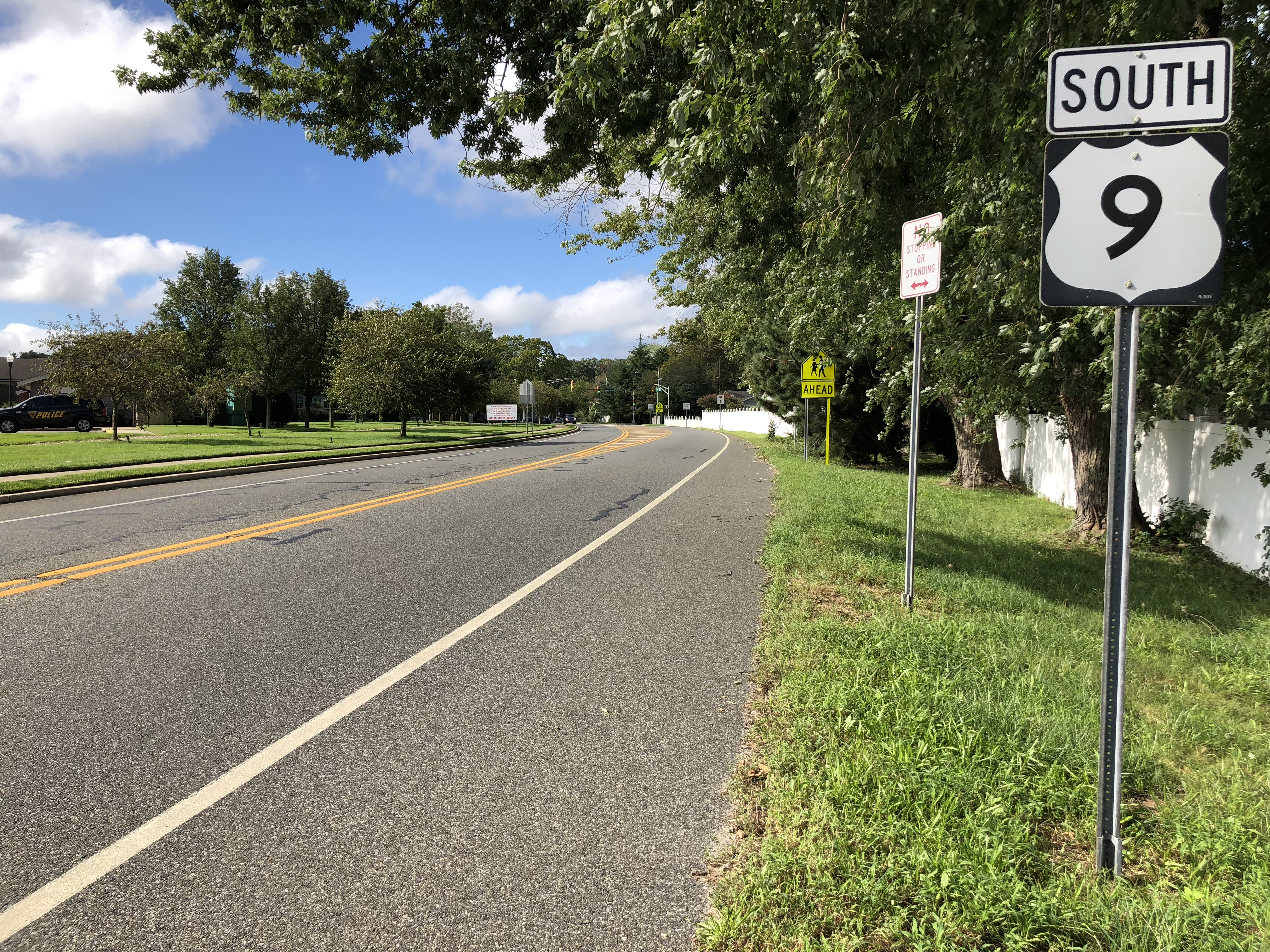 View south along U.S. Route 9 (New Road) just south of Oak Avenue in Linwood, Atlantic County, New Jersey